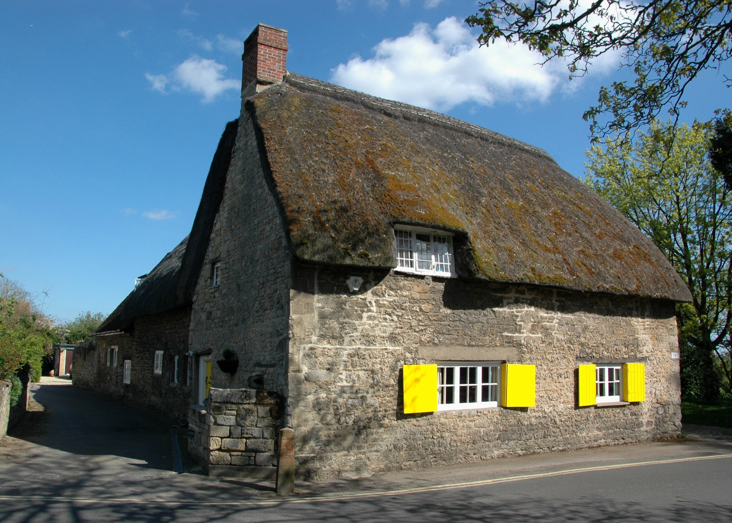 187 Godstow Road, Wolvercote, Oxfordshire: view from the northwest